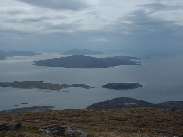 The upper slopes of Cleiseabhal Looking over Loch a Siar to Taransay in the centre.